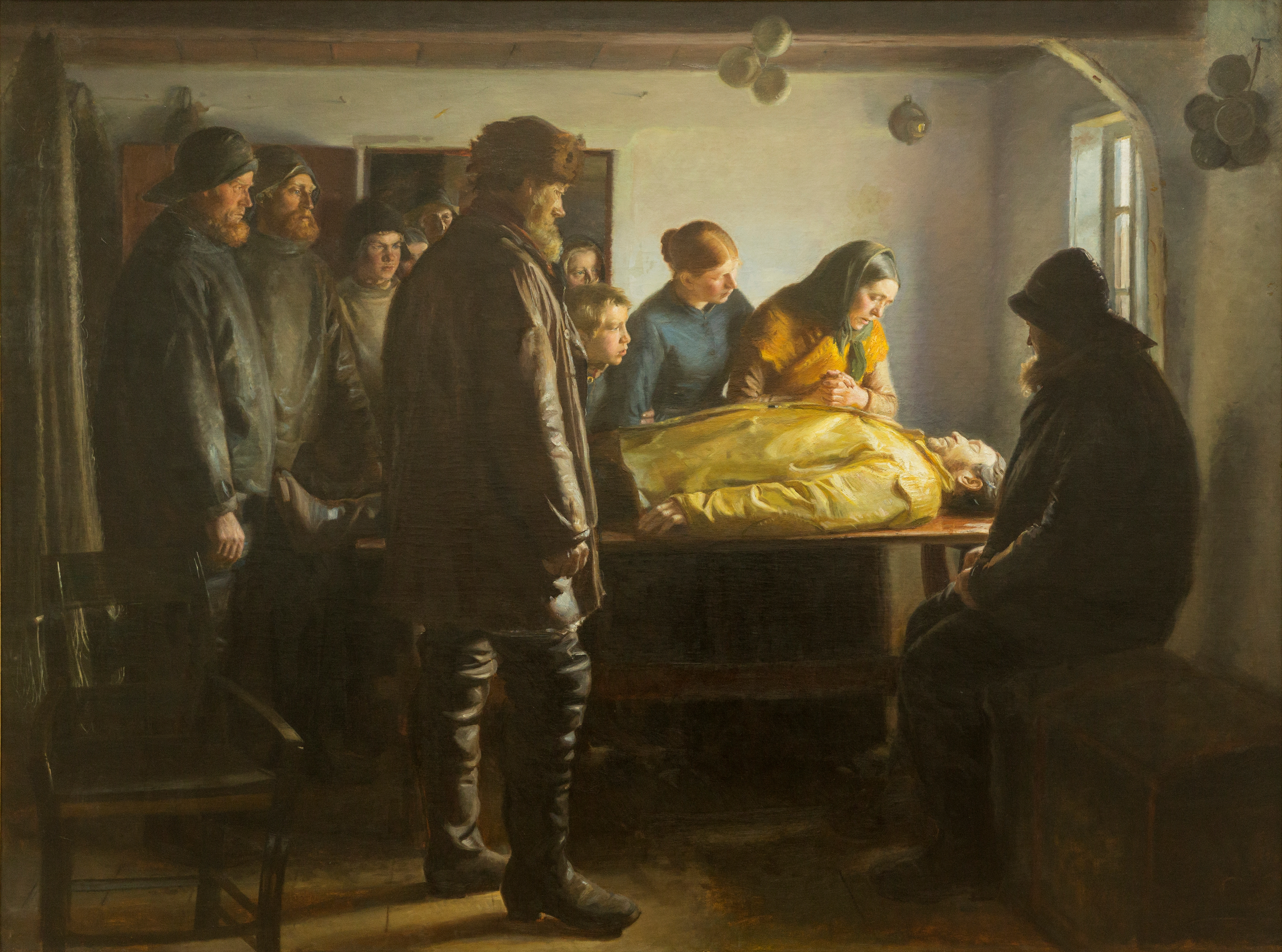 Michael Ancher got the idea for this painting after a dramatic event in 1894 in which two fishermen drowned at work. One of them was the fisherman and rescuer Lars Kruse, who became famous in Denmark in 1879 because Holger Drachmann wrote a short story about his heroism. Several national newspapers thus wrote about Kruse’s funeral. The other person who drowned was a young man. Ancher painted many pictures of fishermen in the 1870s and 80s, and The drowned was his last major figure composition with fishermen as the subject matter. The image space is constructed as a scene in which the two fishermen in the foreground have stepped to the side, exposing to the viewer the table with the drowned man. The oppressive atmosphere is emphasized by the serious faces of the fishermen and the drowned man is highlighted by the yellow raincoat and the light streaming in from the window.